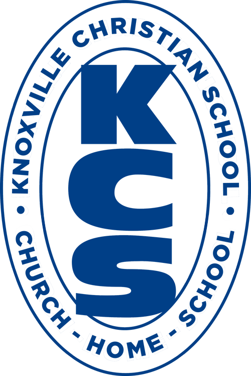 Official Knoxville Christian School Logo